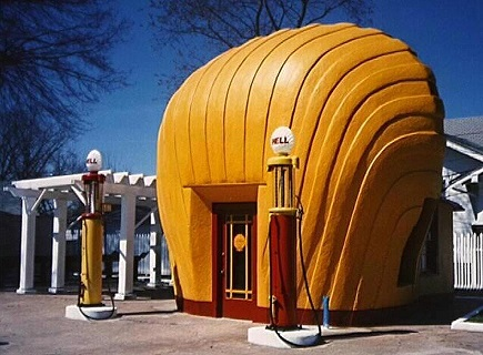 This Shell Service Station is the only one to survive today from a total of eight built in the Winston-Salem, North Carolina, area.